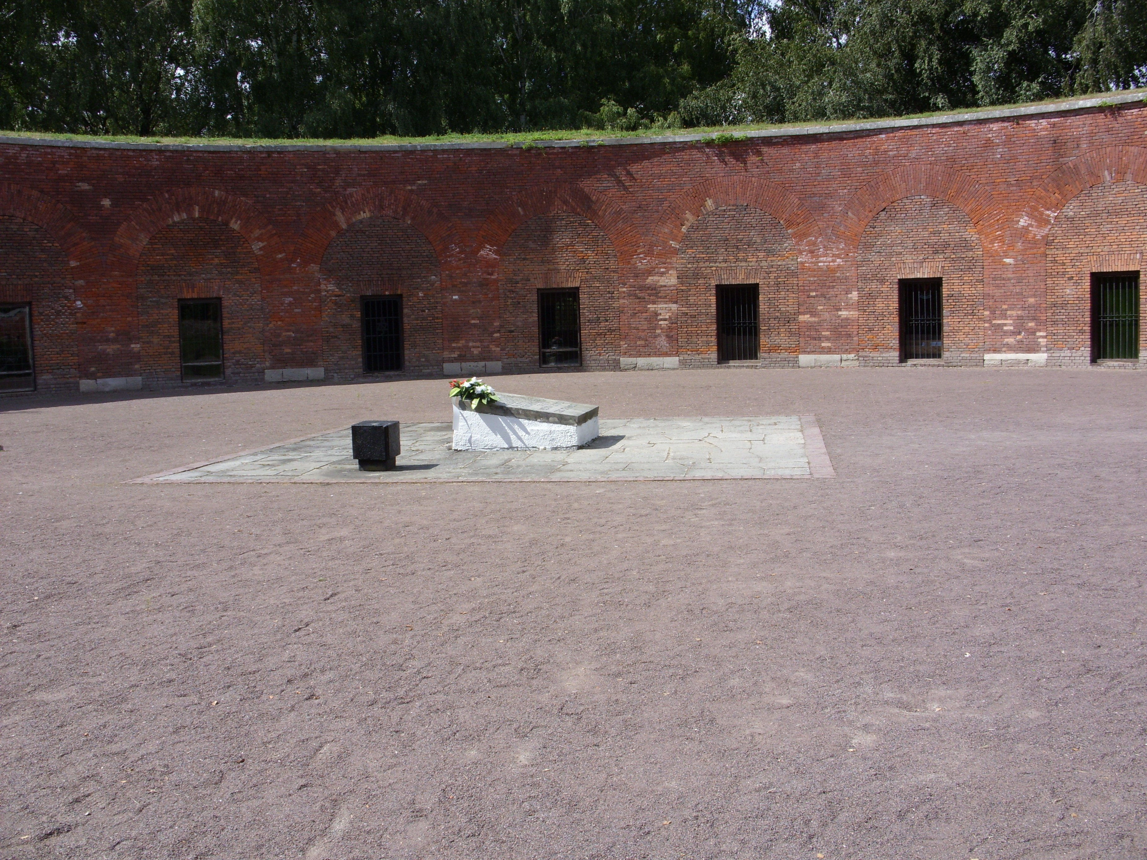 Rotunda Museum in Zamosc. Place of burning corpses